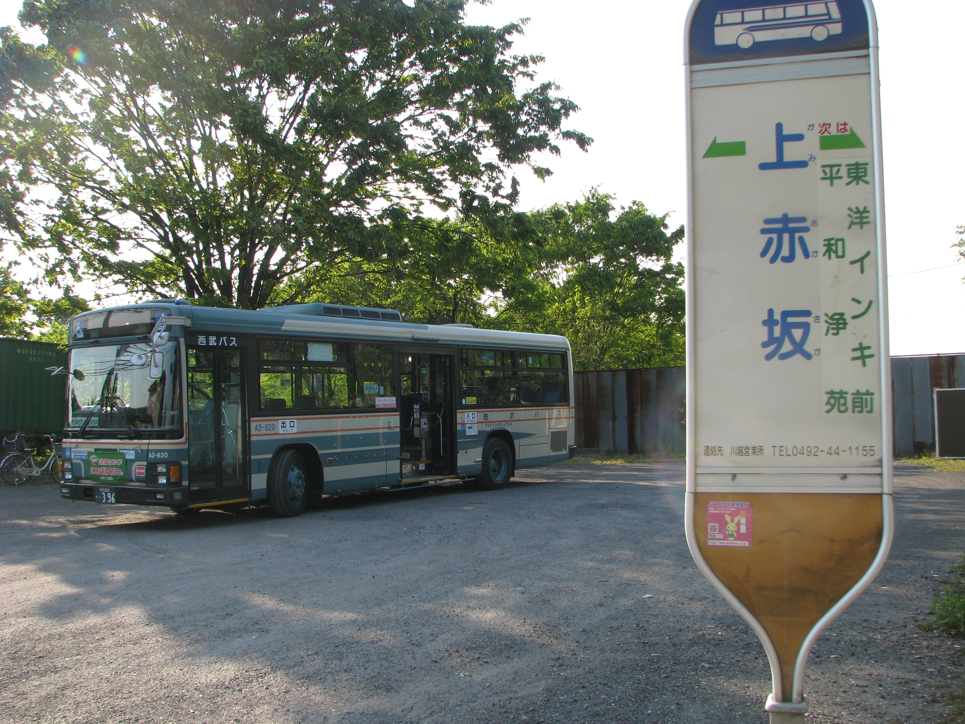 Kami-akasaka bus stop, Sayama, Saitama, Japana.